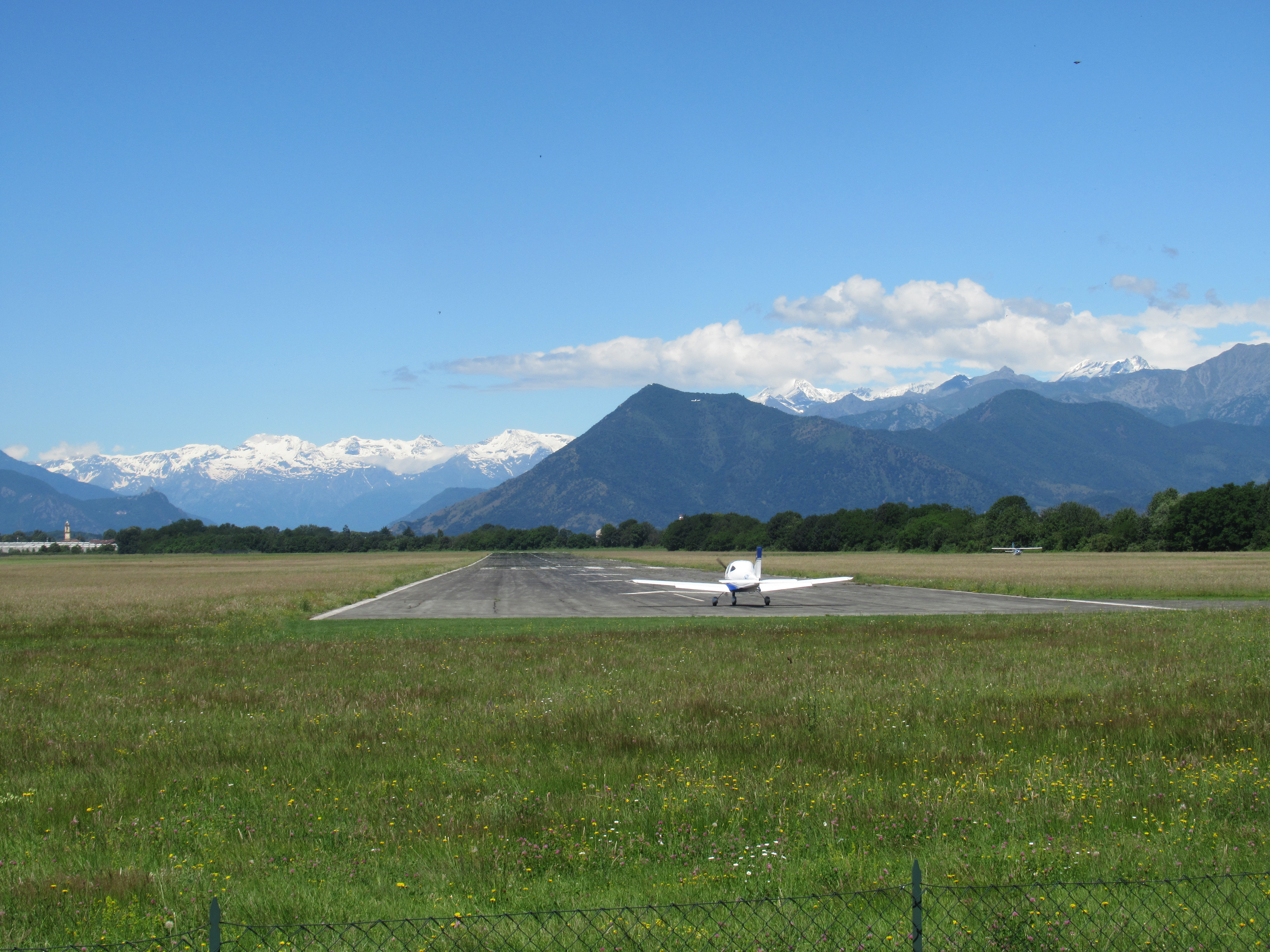 Landing strip 10L/28R of the Turin-Aeritalia Airport